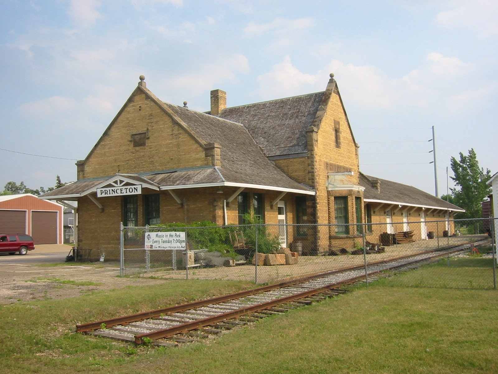 Great Northern Depot (Princeton, Minnesota). The railroad has since been abandoned, but the depot is now a museum.